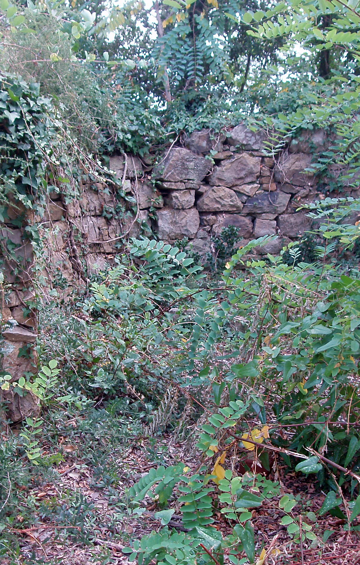 Ruins close to the summit of the Monte Castello (Sestri Levante, Italy)